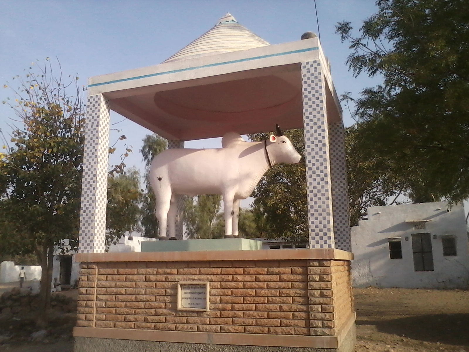 Here A bull is symbol of village prosperity